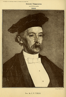 Photo of Dutch theologian and writer Cornelis Petrus Tiele.